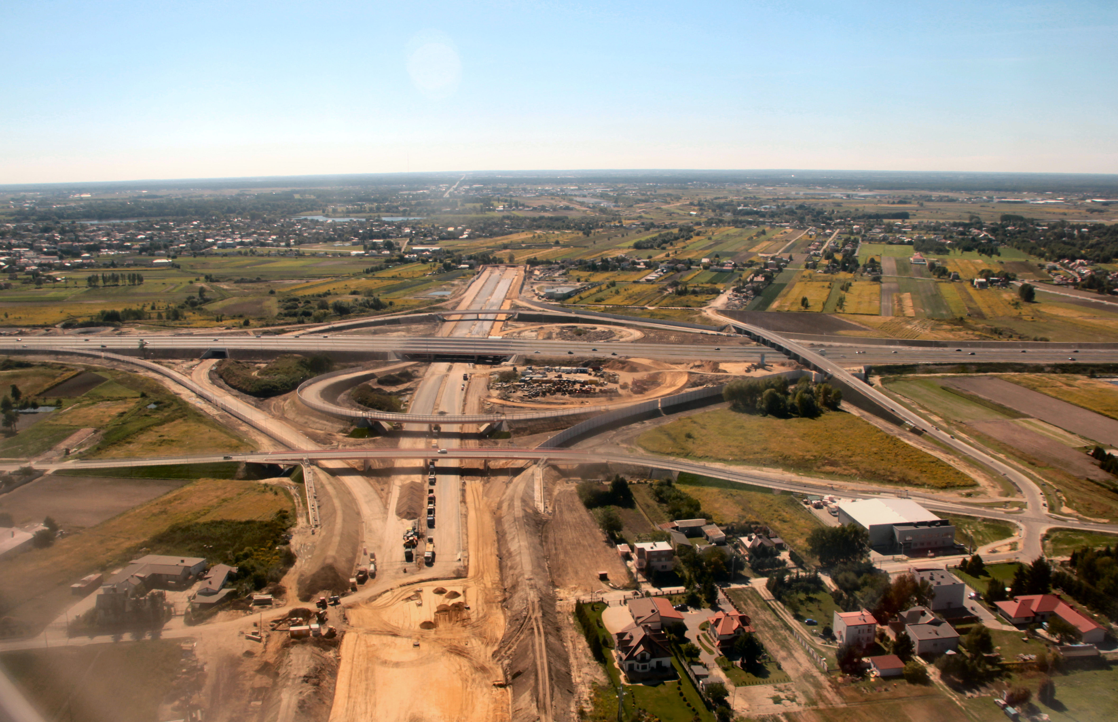 The junction between expressways S2 and S8 under construction near Opacz, Poland. Spetember 2013